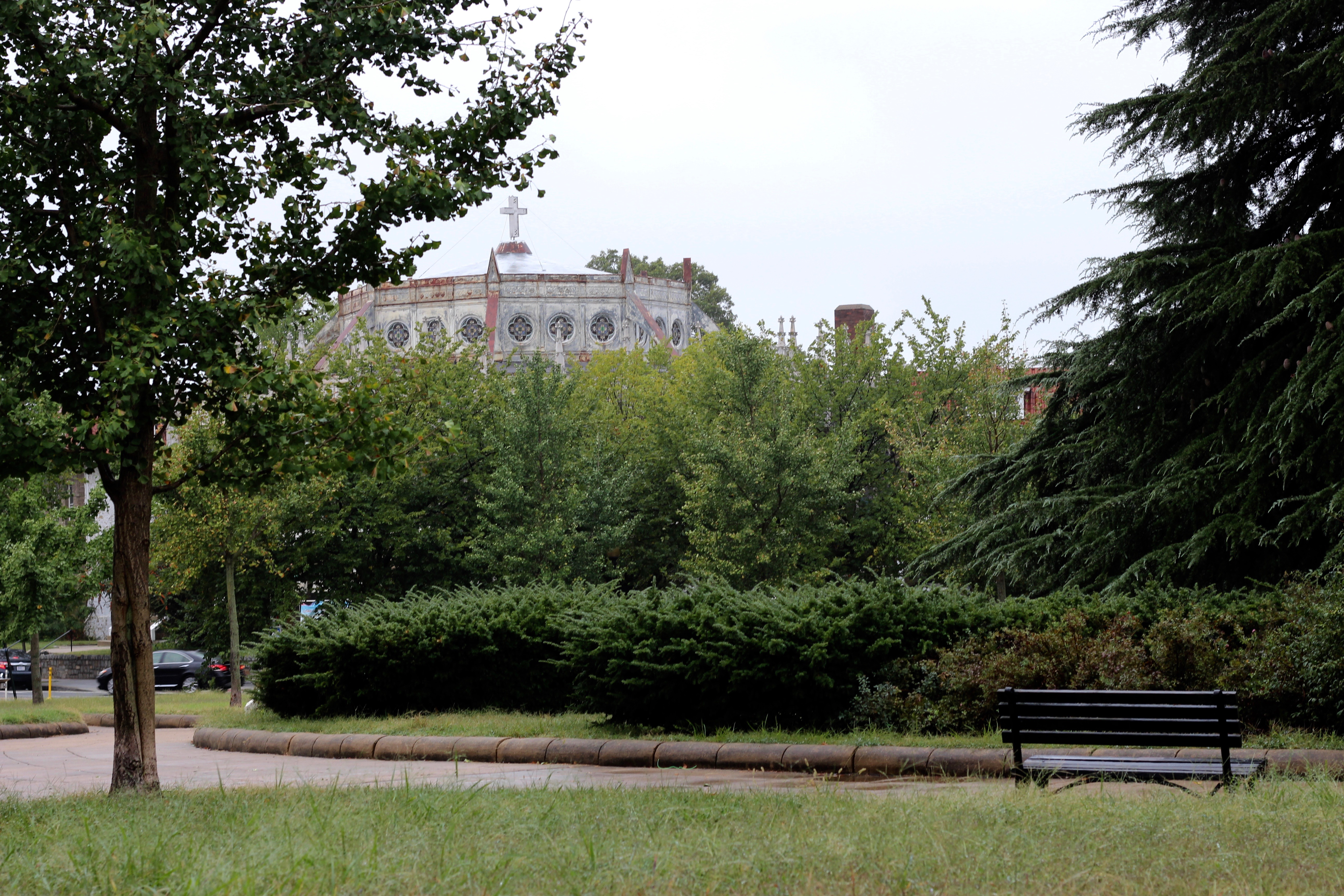 Grant Circle, in Washington DC's Petworth neighborhood, on a rainy day in September 2016.